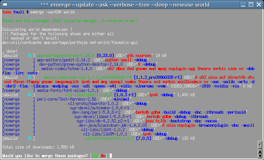 Portage from Gentoo Linux after calling for updates